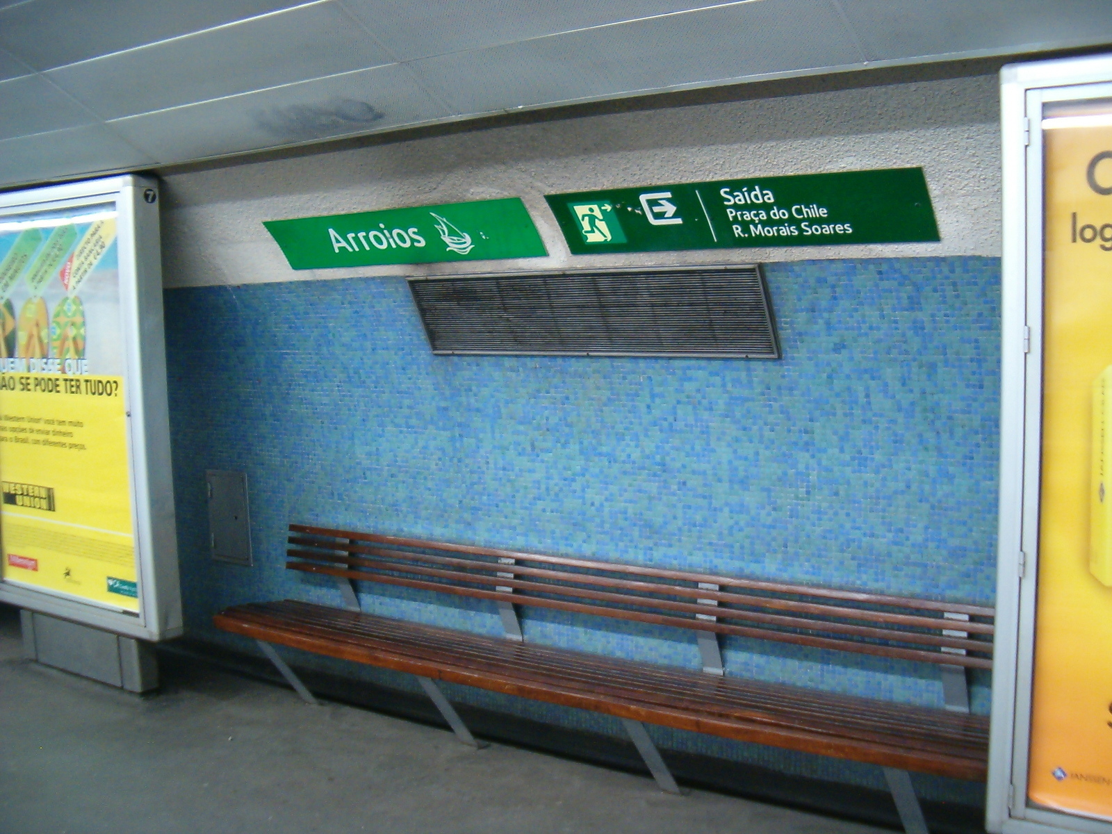 Metro station Arroios (Lisboa)